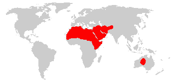 Range of dromedarie camels worldwide